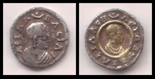 Coin of King Aphilas of Ethiopia, 4th century AD.